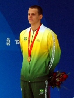 Cesar Cielo Filho, brazilian swimmer, olympic champion